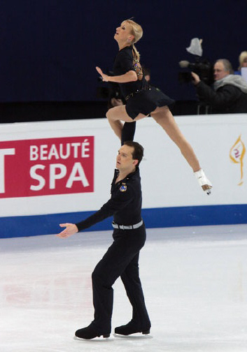 2009 European Figure Skating Championships - Tatiana Volosozhar and Stanislav Morozov